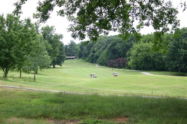 I am the author, Michael Krewson, and I am releasing my personal photograph to wikipedia.